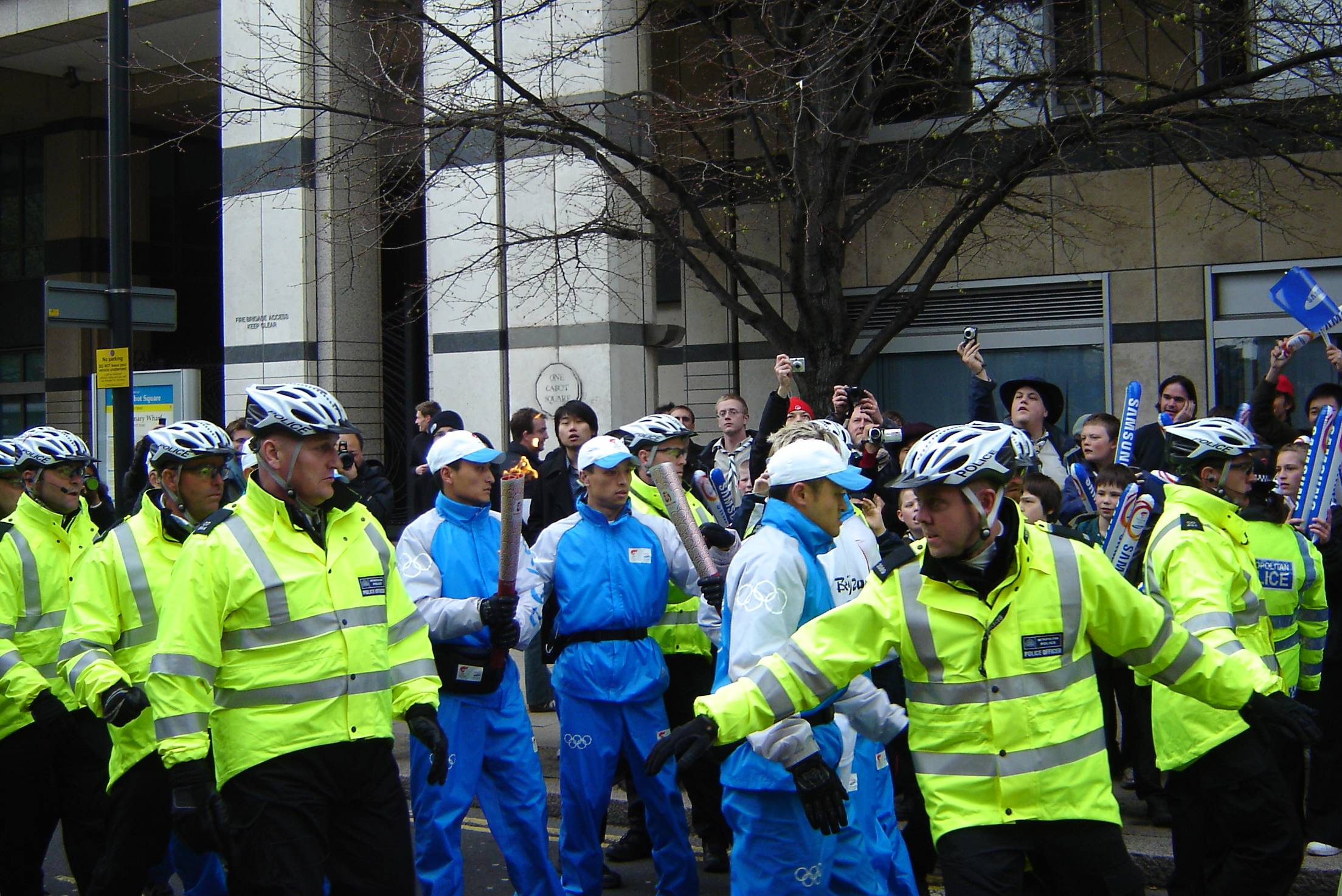 The Olympic flame is passed from torch to torch in London's Canary Wharf during the Olympic torch relay of 2008.